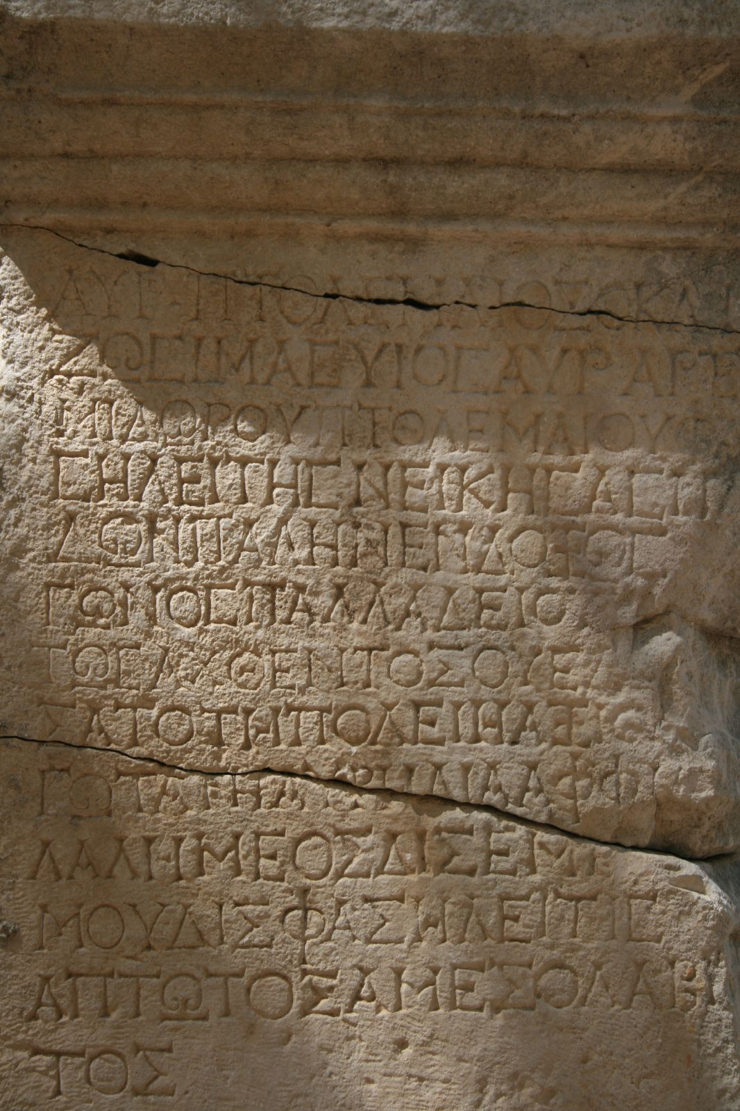 Inscription on a column in Phaselis